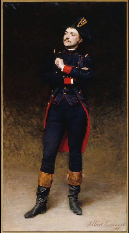 Portrait de l'acteur Léon Marais (1853-1891), dans le rôle de Martial de "Thermidor" de Victorien Sardou, oil on canvas, 126 x 222 cm.